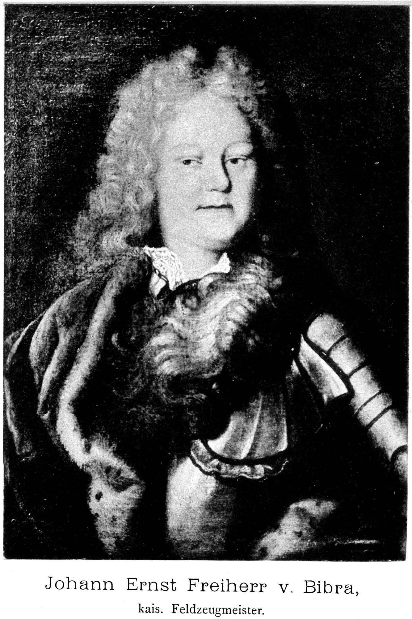 Johann Ernst von Bibra